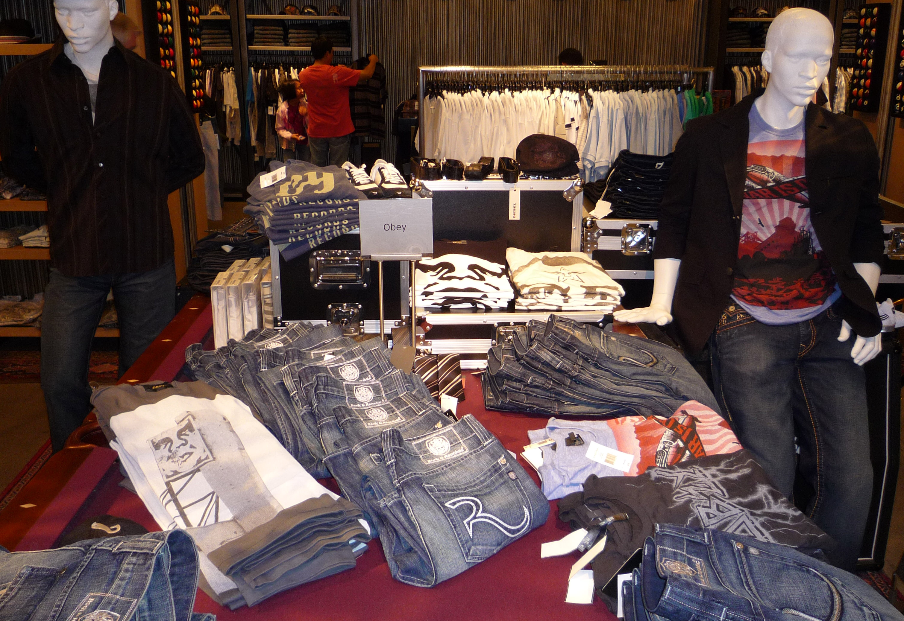 Shepard Fairey's OBEY Giant clothing line sold at a premium at an upscale Nordstrom department store in downtown San Francisco, California